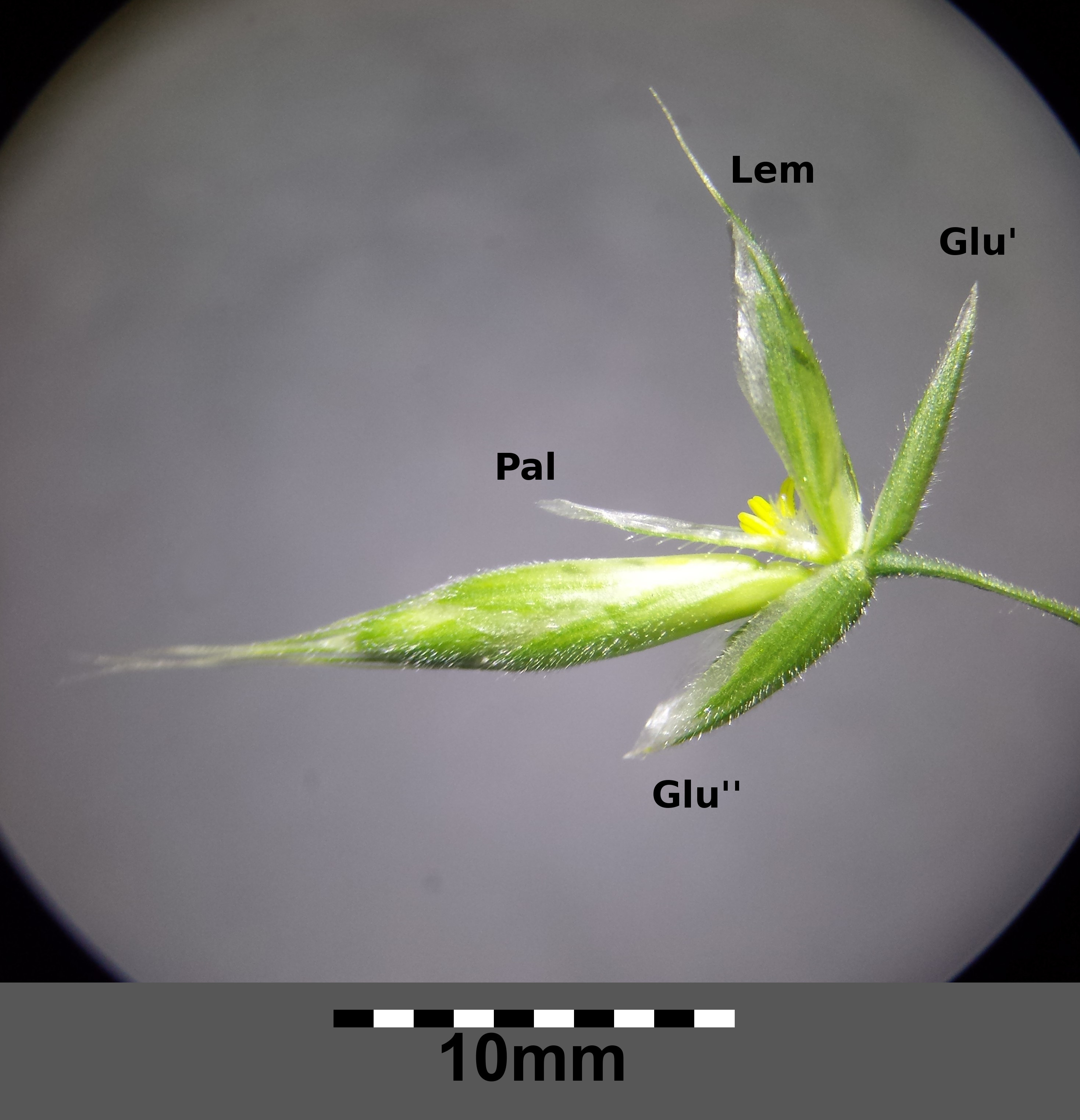 Spikelet with lower and upper gluma (Glu), lemma (Lem) and palea (Pal) Taxonym: Bromus hordeaceus subsp. hordeaceus ss Fischer et al. EfÖLS 2008 ISBN 978-3-85474-187-9 Location: Floridsdorf rail station, Vienna-Floridsdorf - ca. 160 m a.s.l. Habitat: ruderal area